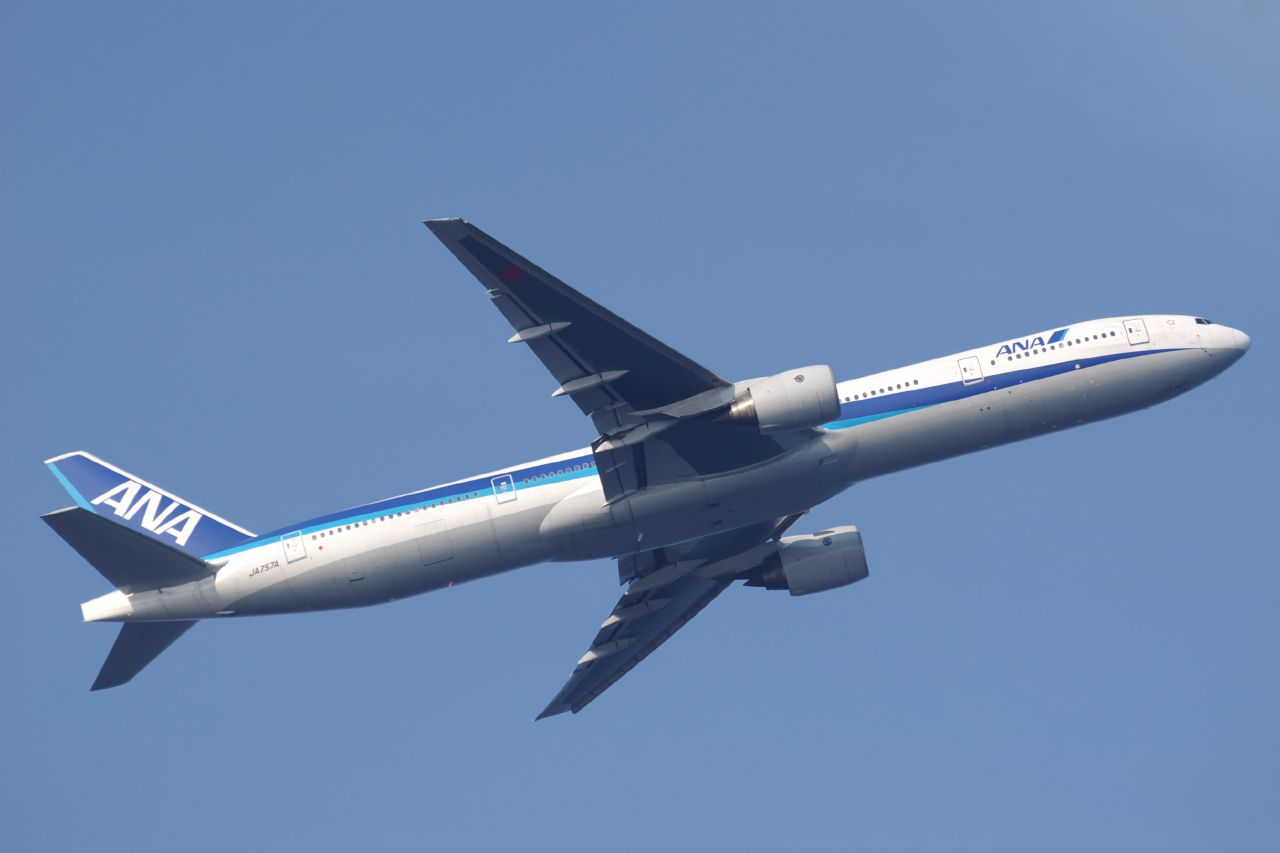 ANA Boeing 777-300 departs from RWY 16R on Tokyo international airport. A?????????ANA?B777-300(JA757A)? Pentax K100D + SIGMA APO 70-300mm/F4-5.6